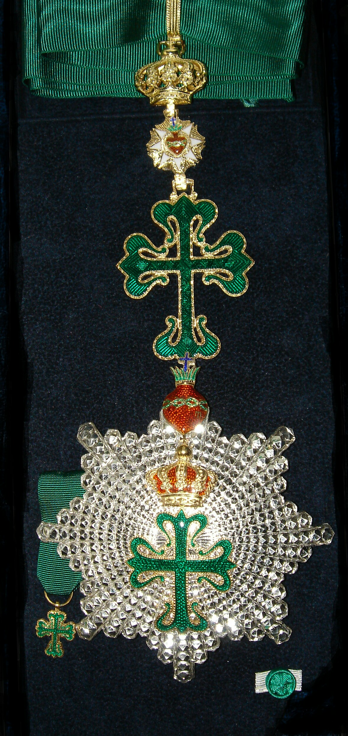 Grand Cross of the Military Order of Saint Benedict of Aviz